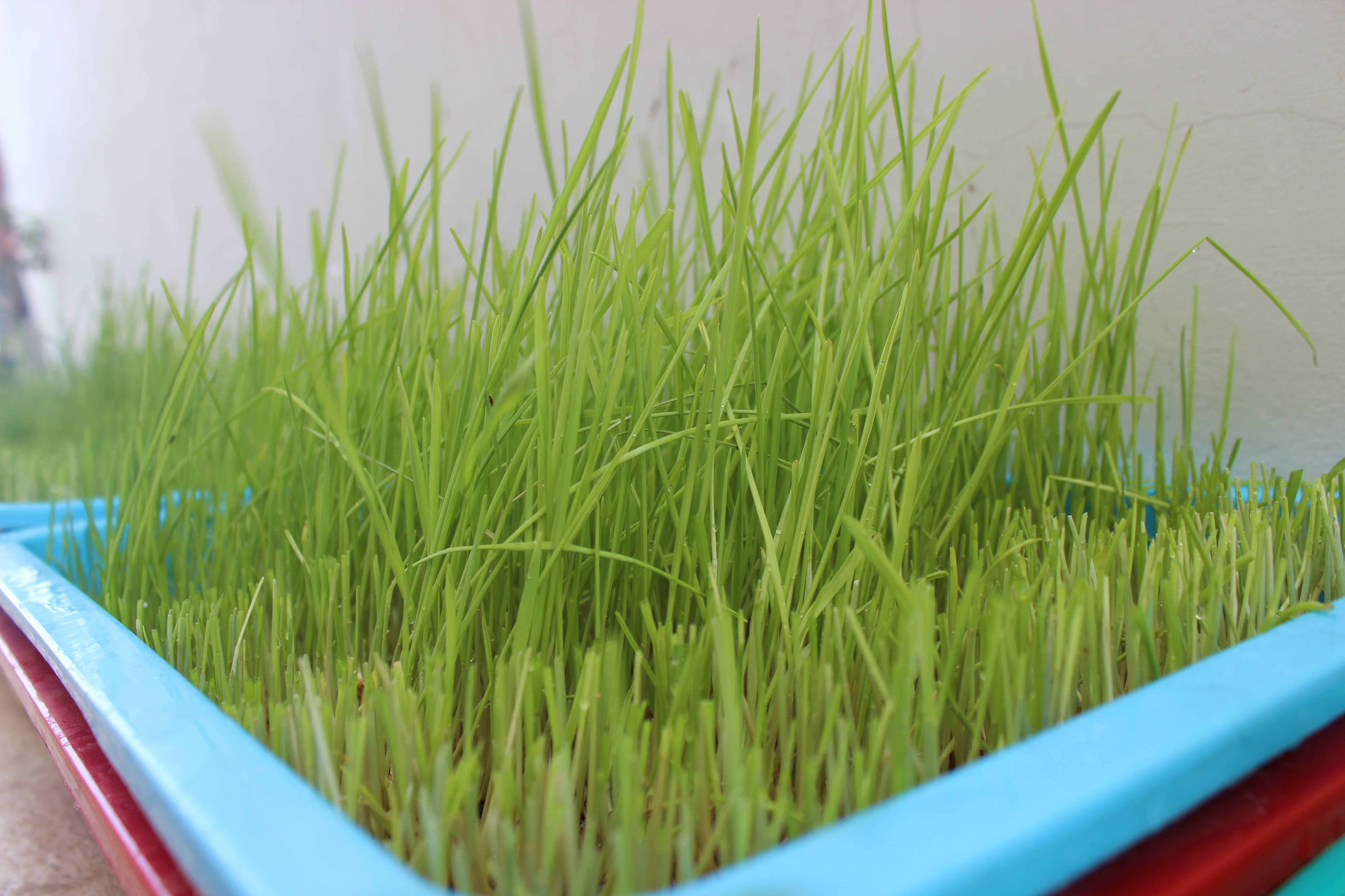 Wheat Grass